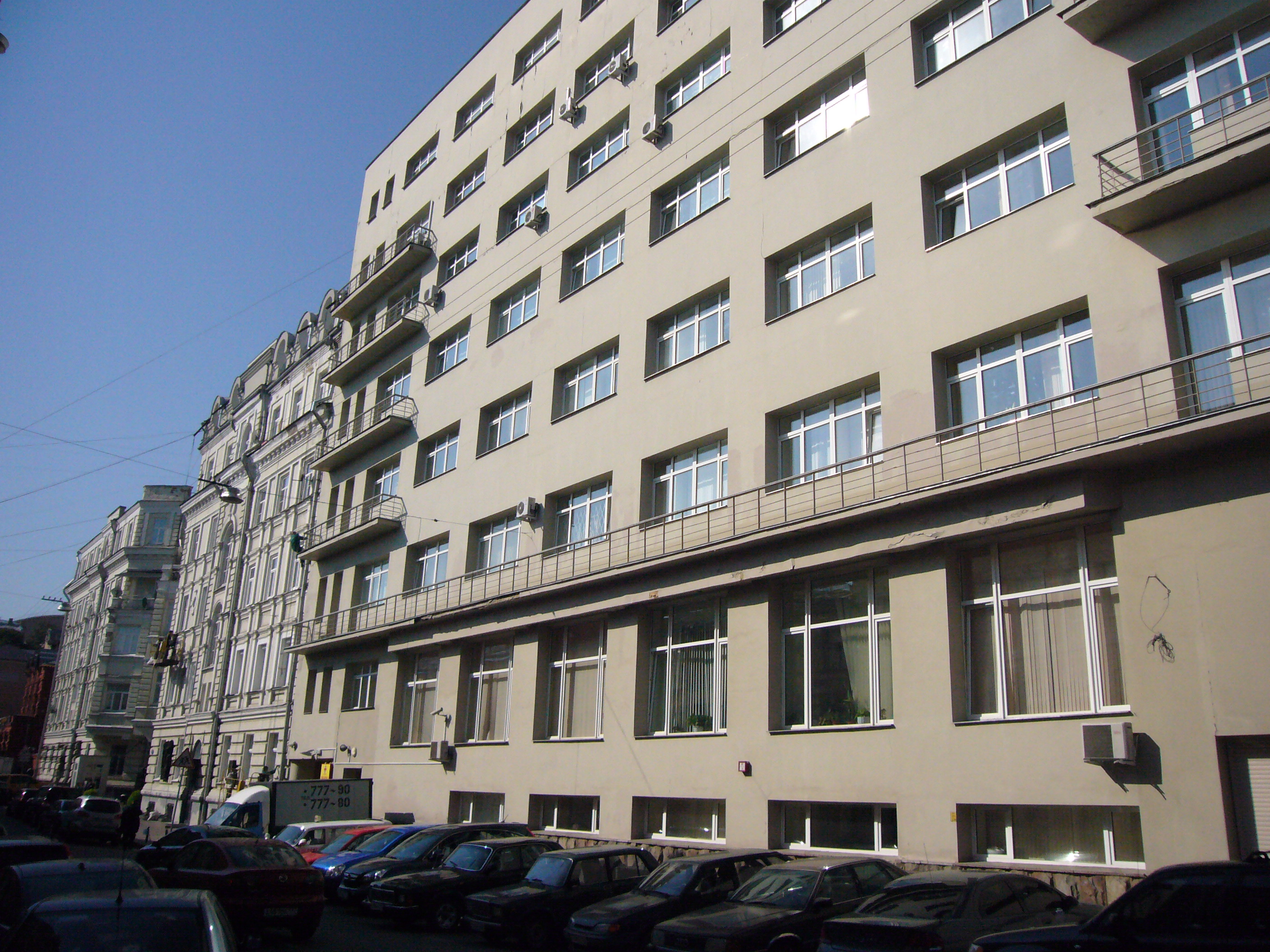 View of Petrovsky Lane, 5, str.9; 25A str.1; Moscow, Russia